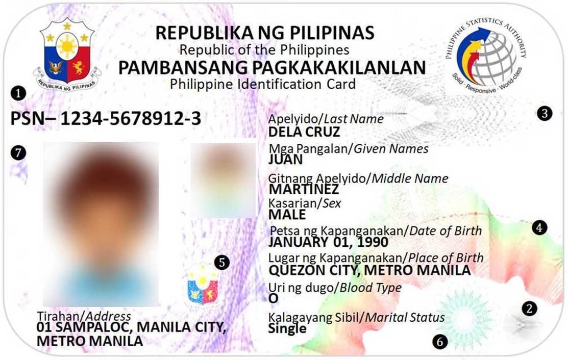 Sample of the front design of the PhilSyS/Philippine Identification Document (ID) card.